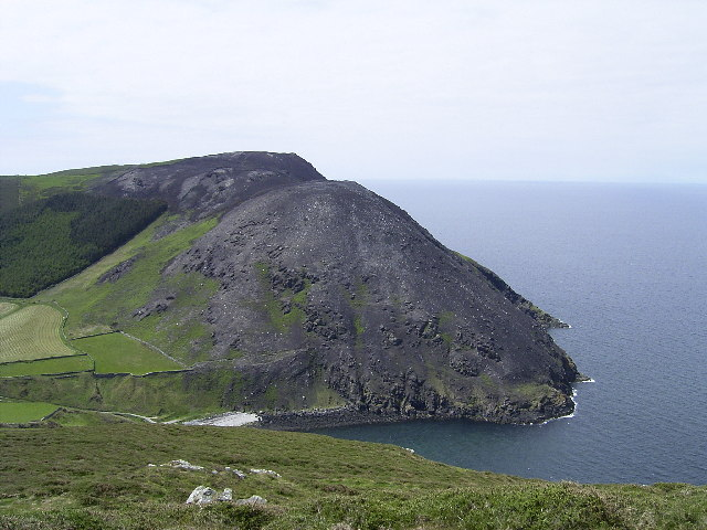 Bradda Hill after the firePhotograph taken in May 2004 looking across Fleshwick Bay, from the Carnanes (SC 208 715) after the great fire of October 2003.